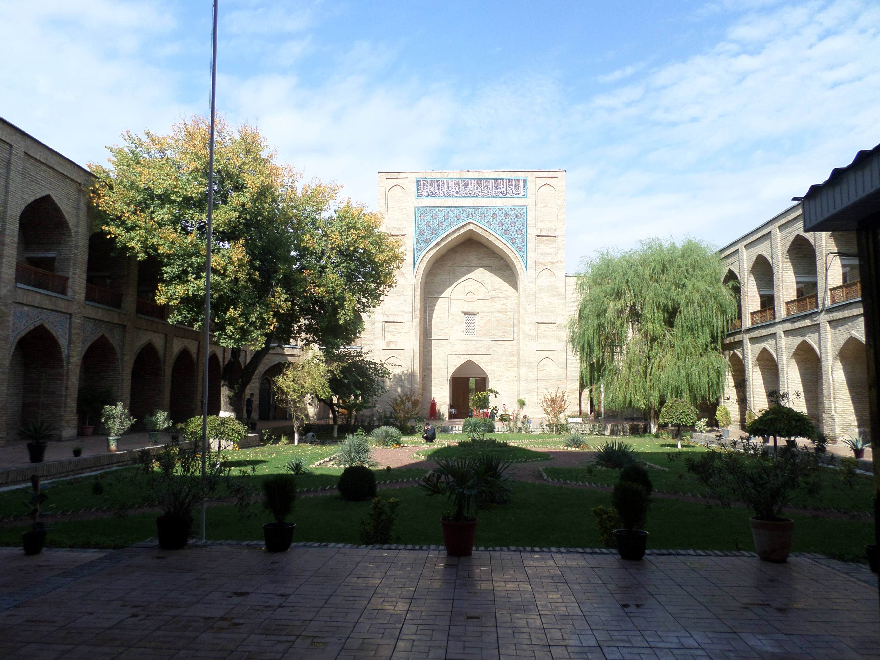 Madrasah Kukaldash (Tashkent)